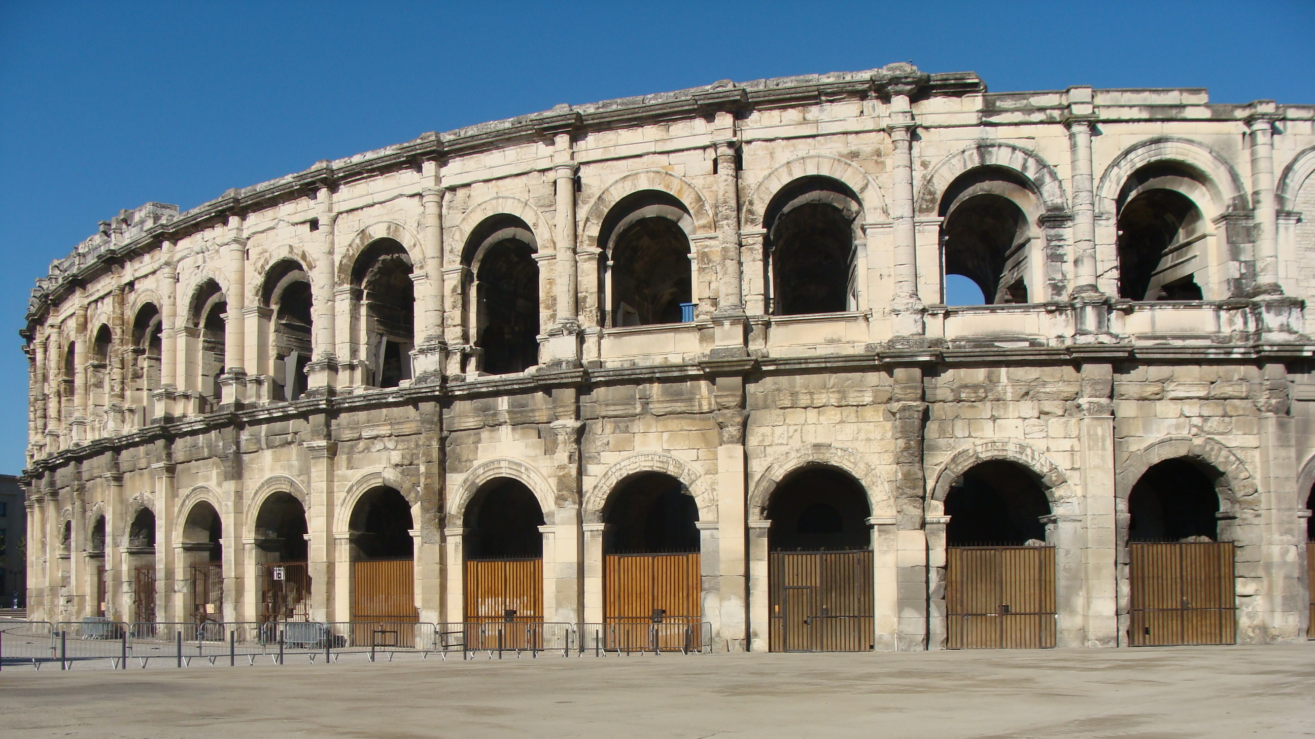 Nîmes - amphitheatre